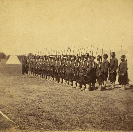 Company E, 5th Regiment N.Y. Zouaves, Colonel Duryee, at Camp Butler, near Fortress Monroe, Va. 1 photographic print on stereo card : stereograph, albumen ; 8.5 x 17 cm. Stacy's Fortress Monroe Stereoscopic Views.